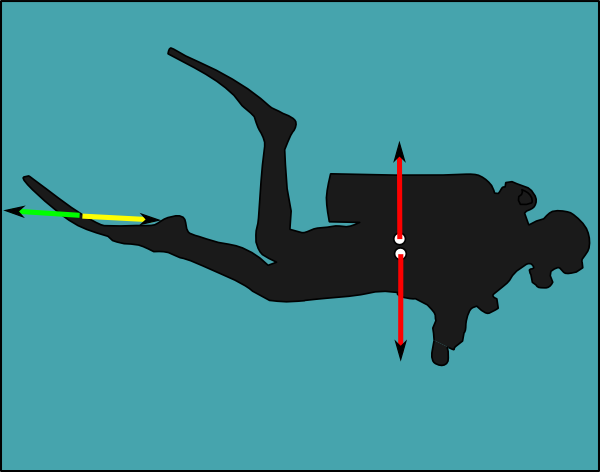 Diver trimmed level resulting in fin thrust akigned with direction of travel